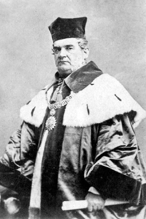 Józef Dietl (1804-1878). Photo from National Archive in Kraków